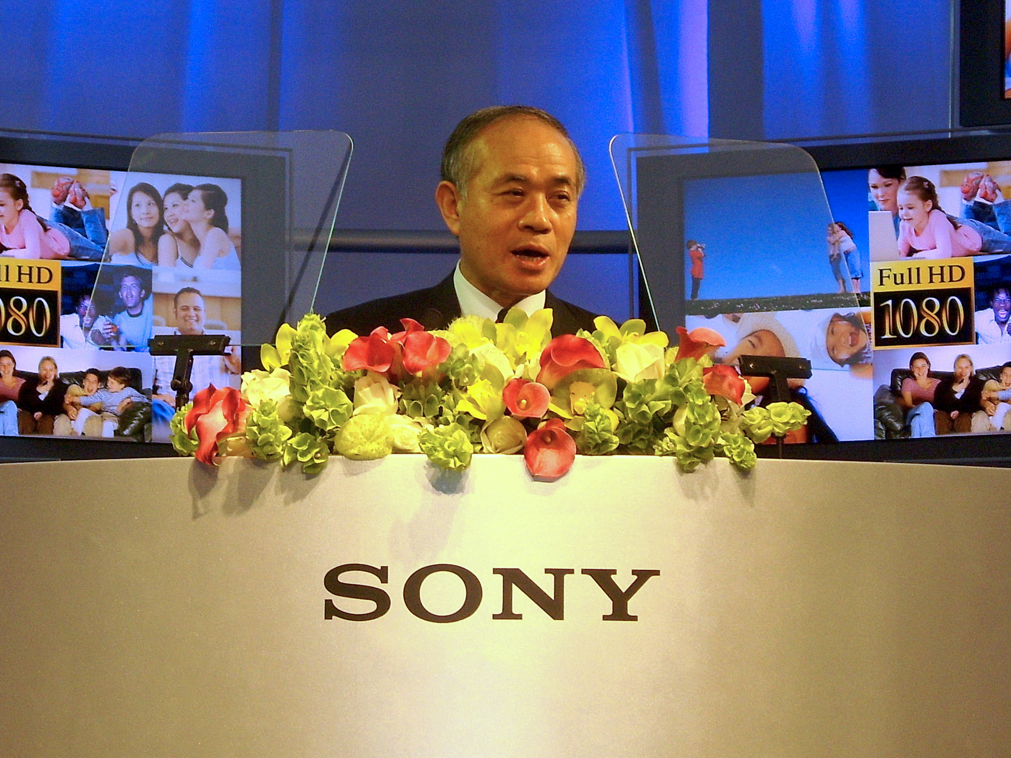 Sony Fair 2008: Ryoji Chubachi, President of Sony.